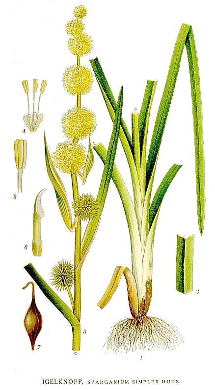 Sparganium emersum Rehmann, syn. Sparganium simplex Huds. Original Description Igelknopp, Sparganium simplex Huds.